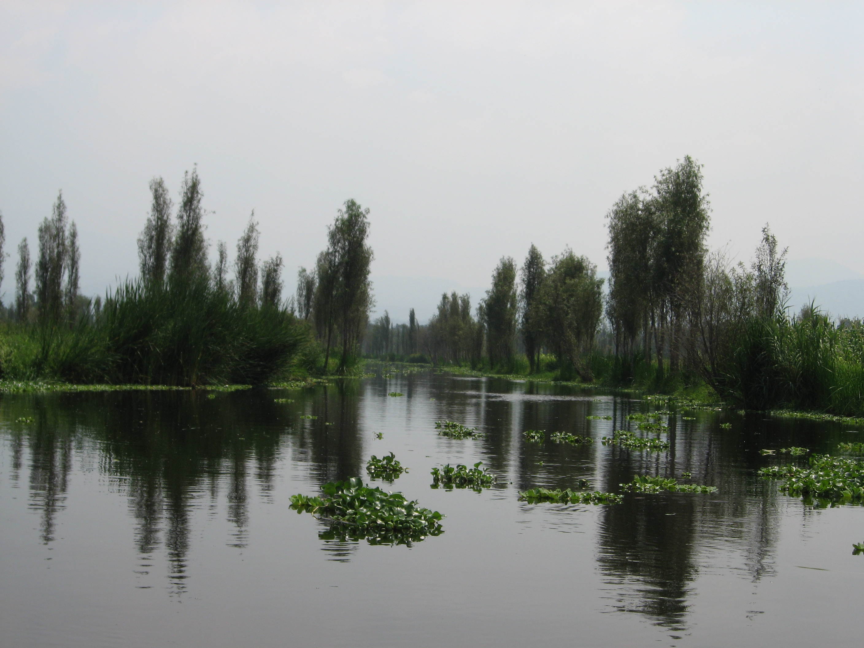 Canals in Xochimilco